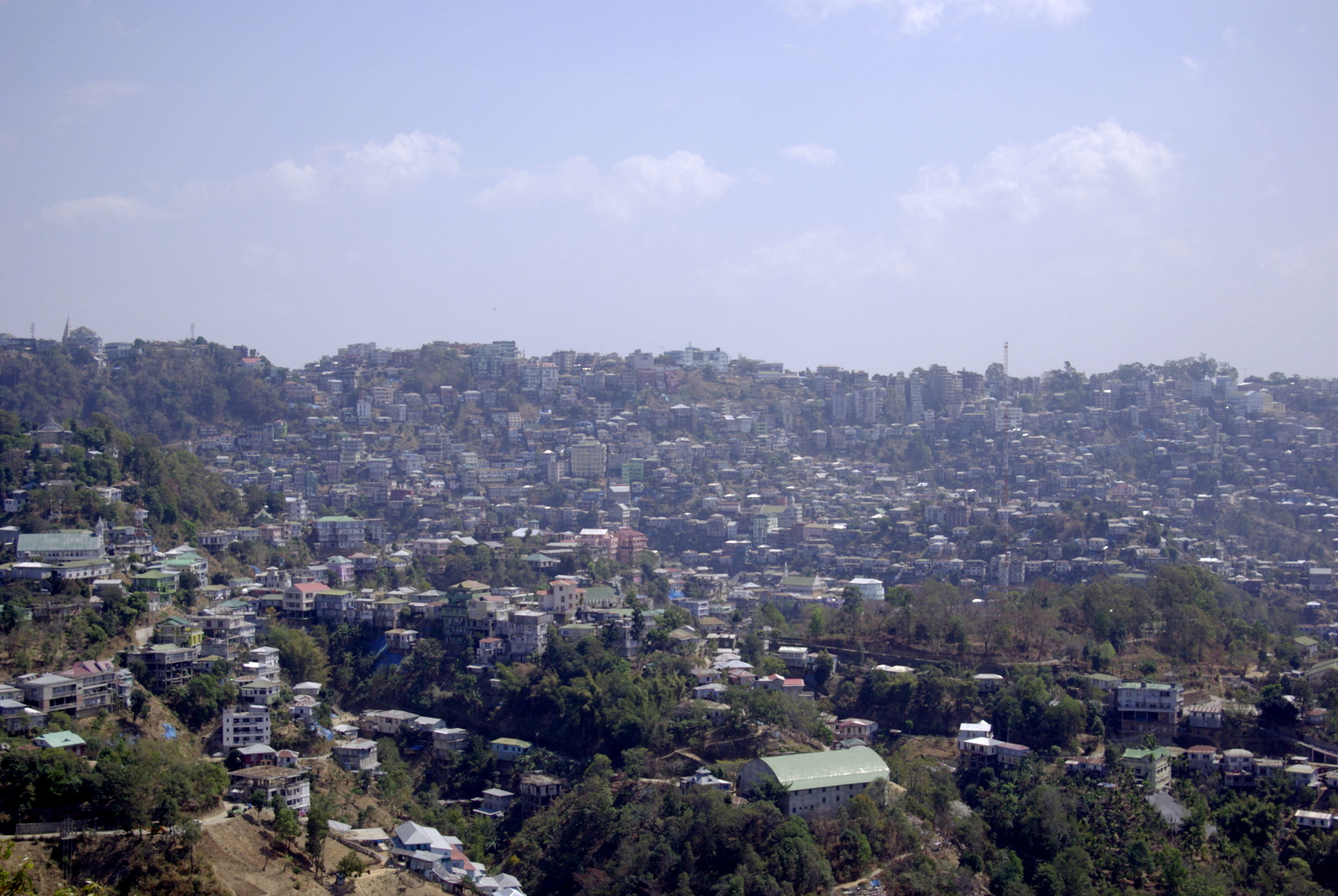 View of the ridgetop city of Aizawl, state capital of Mizoram